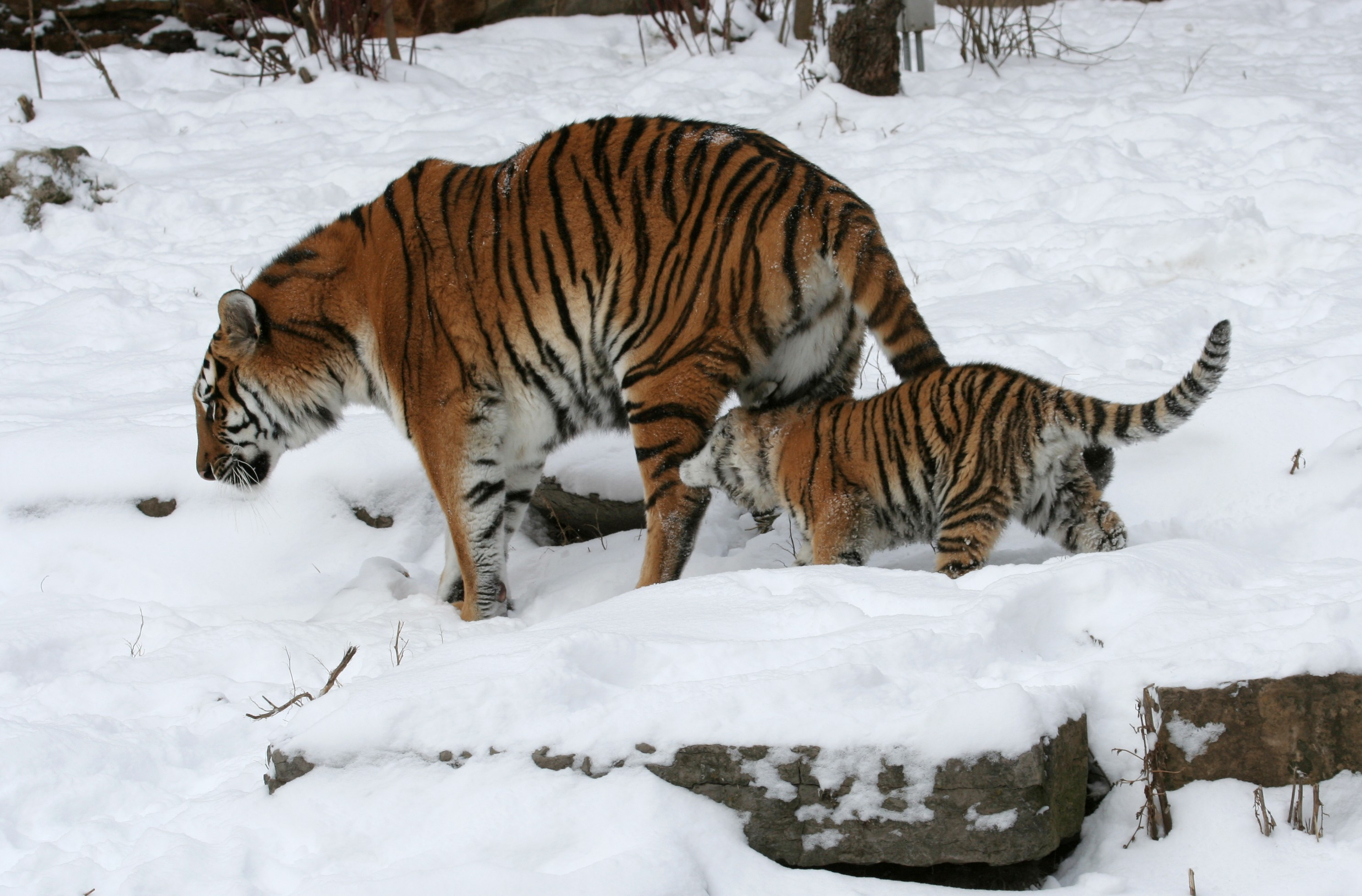 Amur tiger (Panthera tigris altaica) at the Buffalo Zoo. Cubs Thyme and Warner, with their mother Sungari. The cubs were born at the zoo to Sungari, and father Toma, on 7 October 2007.